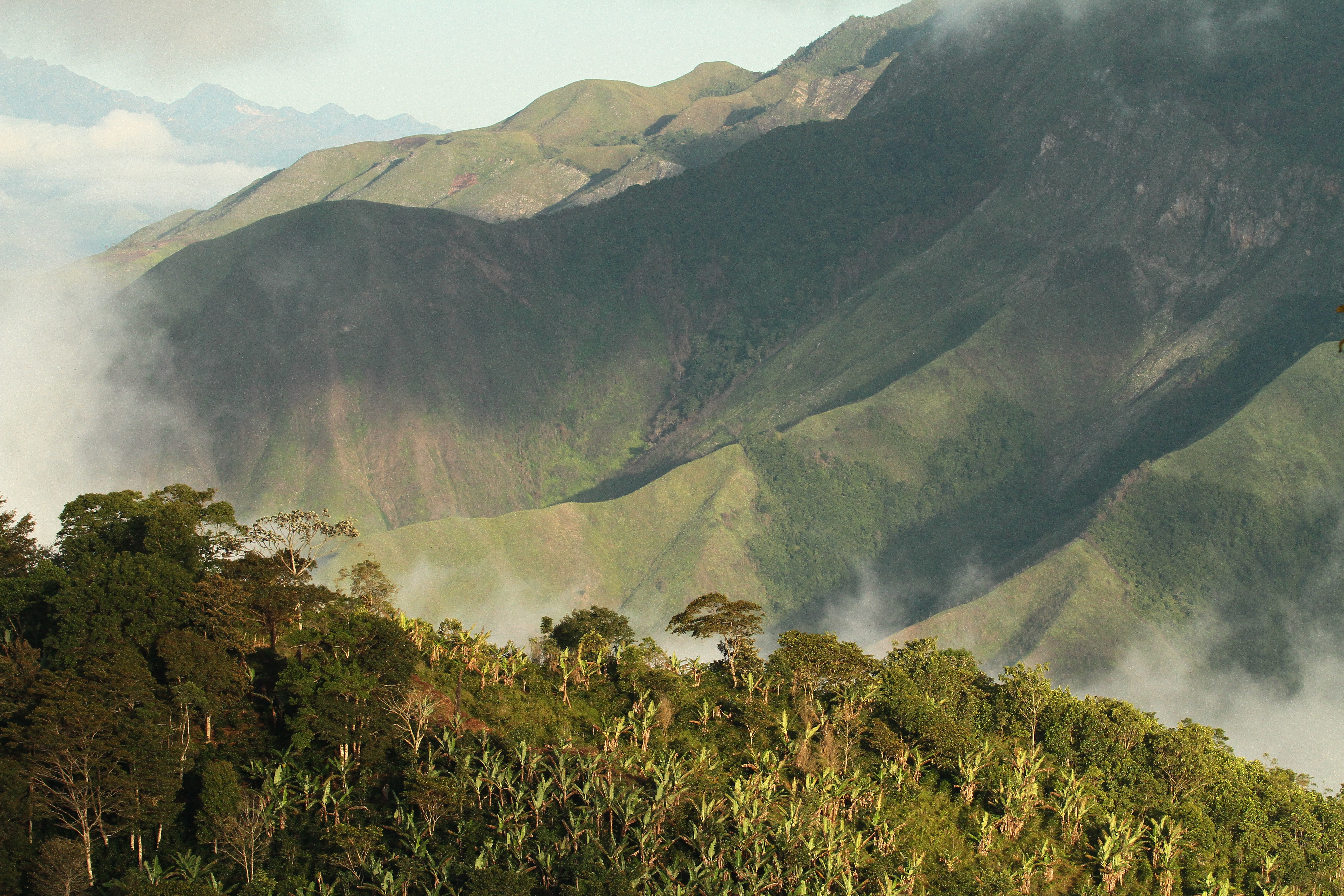 Cerro Peru, Monagas, Venezuela